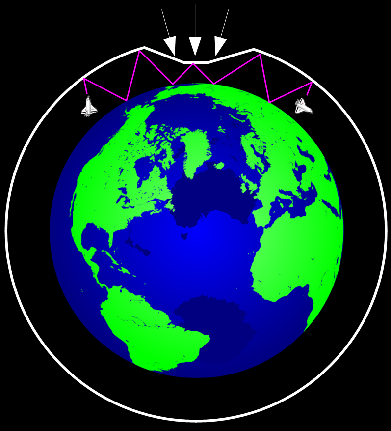 Polar Cap Absorption: An ionospheric disturbance caused by the subsidence of the lower ionosphere.